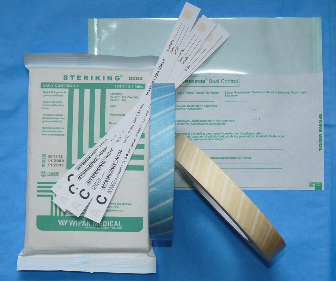 Chemical indicators for autoclaves